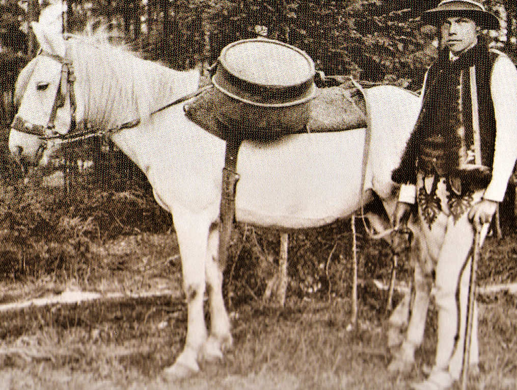 Polish (Goral) farmer from the 19th century, High Tatras